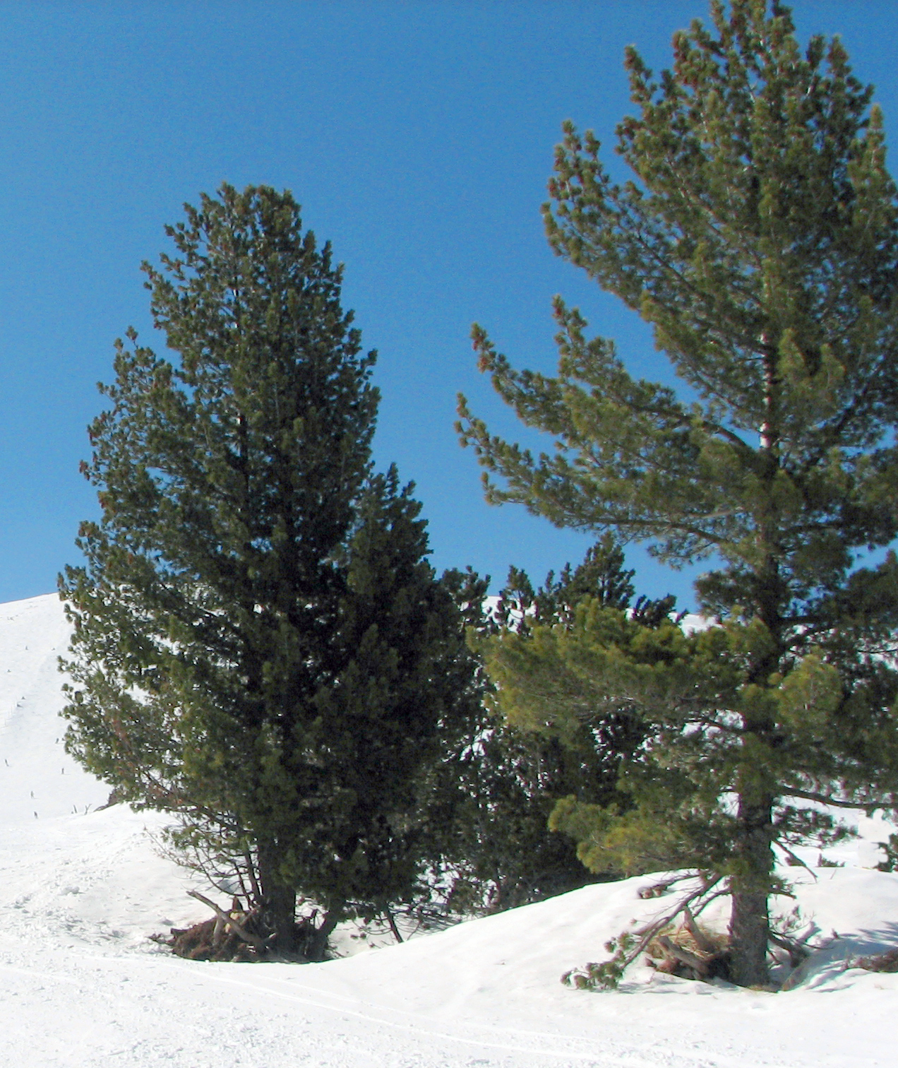 Pinus peuce trees at treeline in winter. Todorin Vrah, Pirin Mountains, Bulgaria, 41°45'40"N 23°26'59"E, 2200 m altitude.